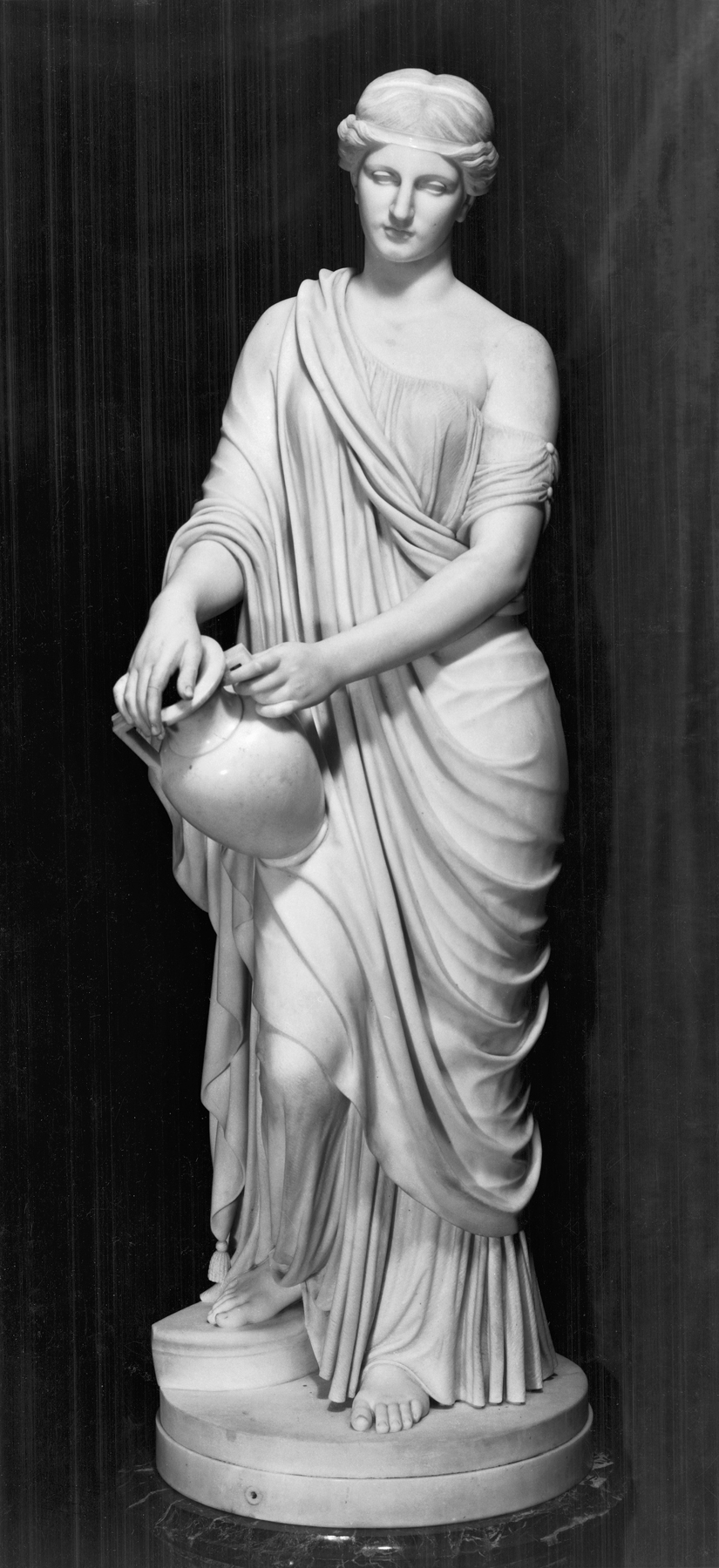 The Gospel of John relates the story of a Samaritan woman who is asked by Jesus for a drink of water. After talking with him, she realizes that he is the Messiah. Rinehart represents the woman, standing with her water vase. A native of Maryland, the artist, with the financial help of William T. Walters, settled in Rome in 1858. There, he sculpted idealized figures as well as portraits of visiting Americans. He worked in a neoclassical style but was also influenced by the emerging naturalistic trends in sculpture.